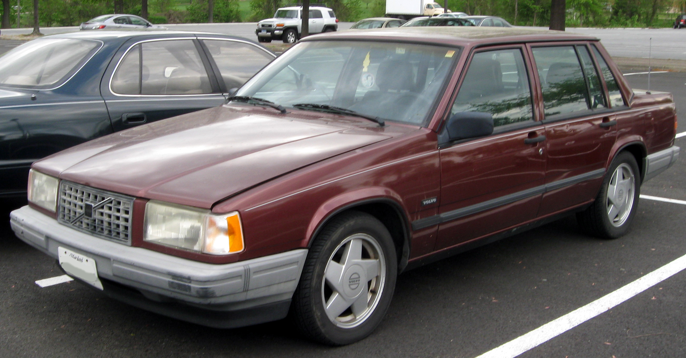 Volvo 740 Turbo photographed in College Park, Maryland, USA.